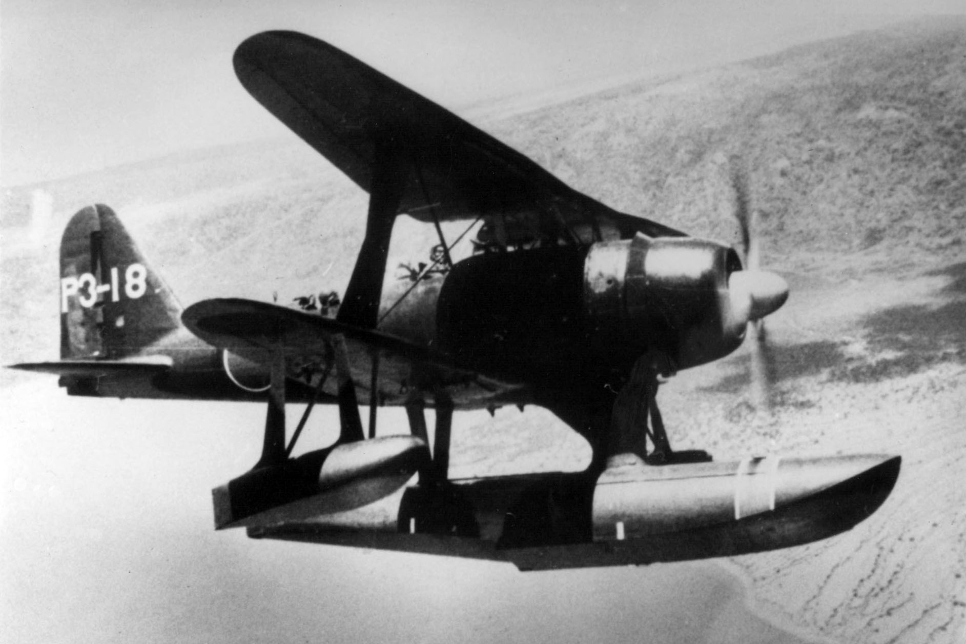 A Japanese Mitsubishi F1M1 "Pete" floatplane in flight over Rabaul.